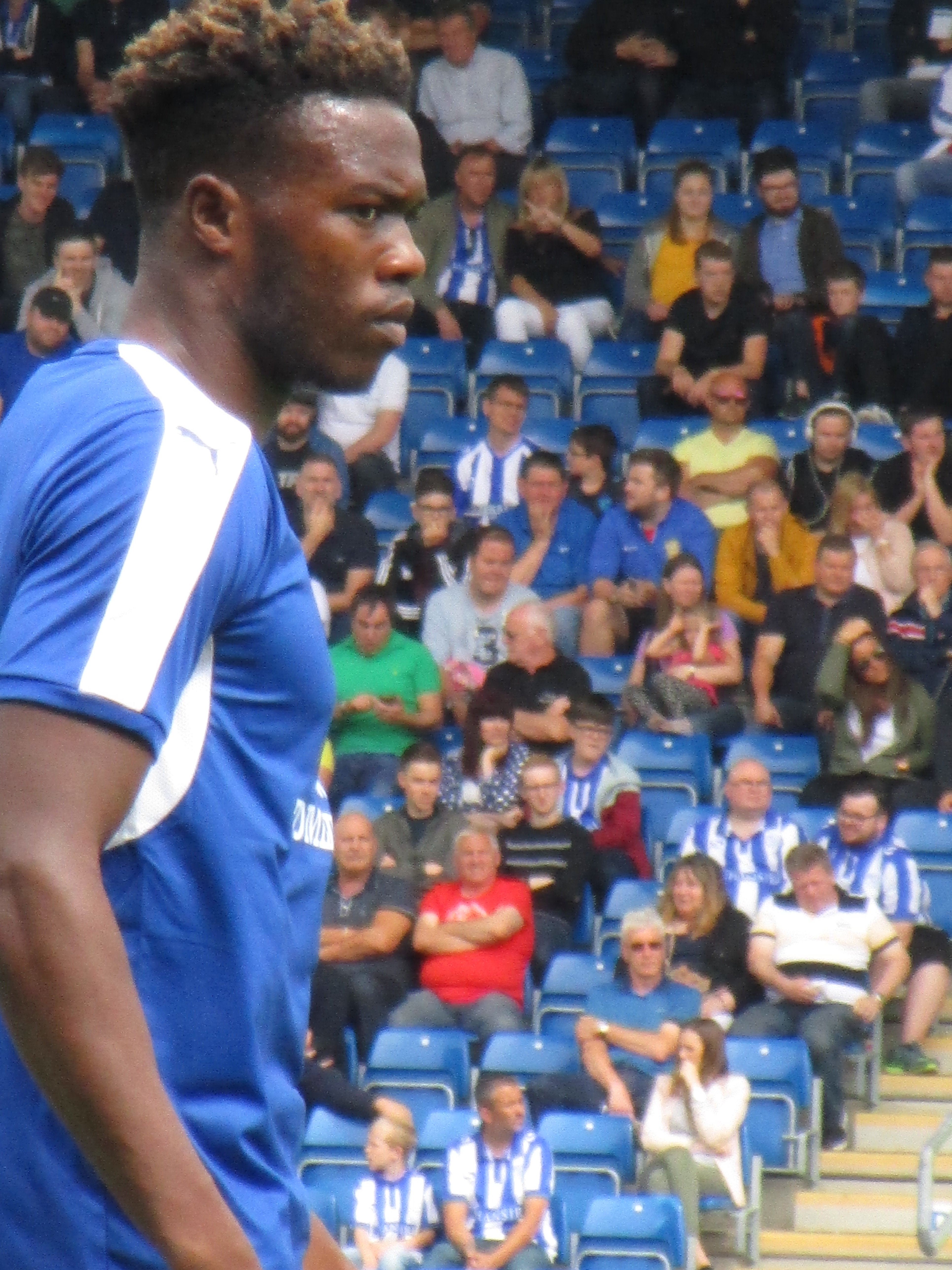 Gboly Ariyibi playing for Chesterfield FC in July 2016